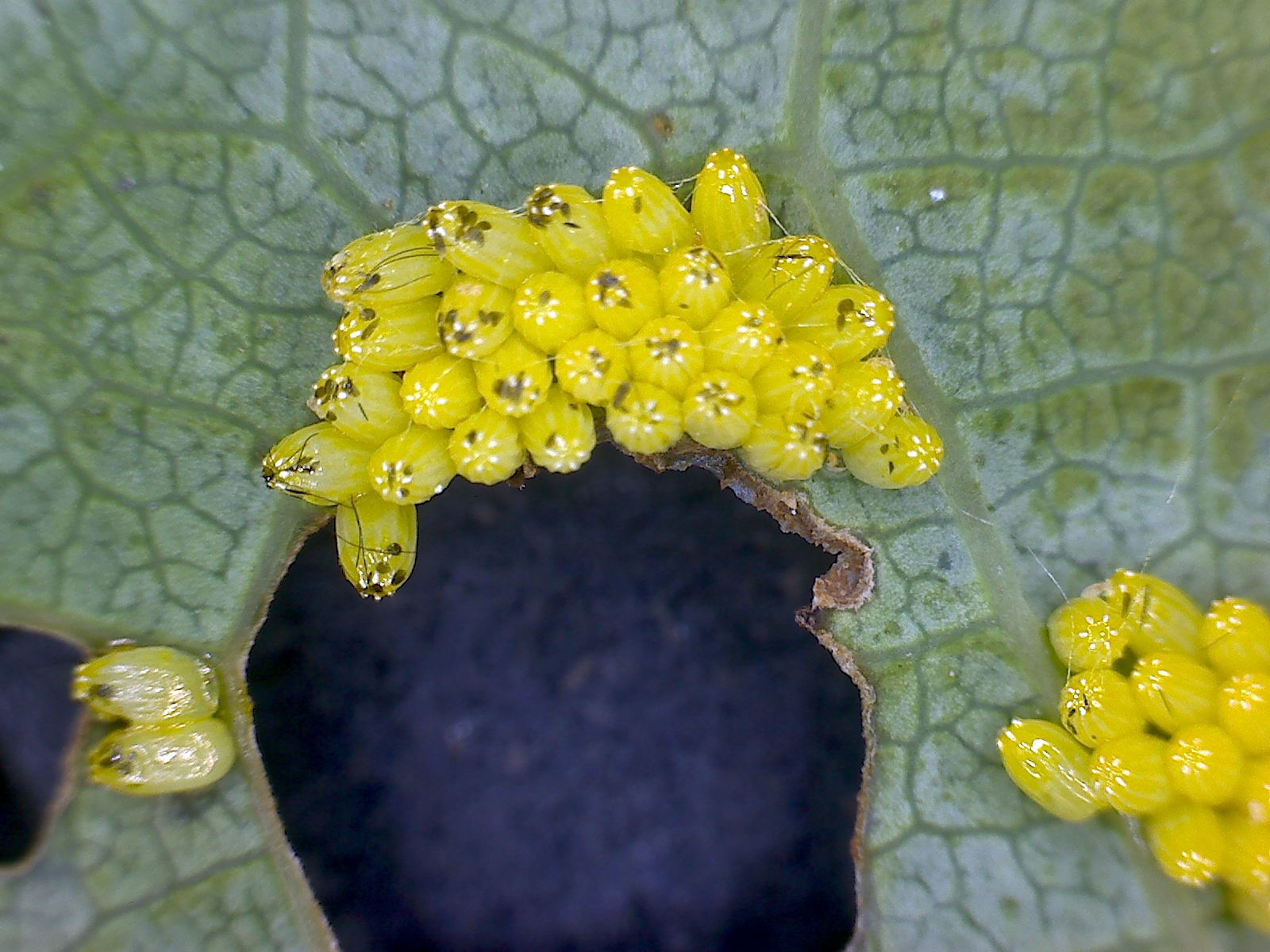 Butterfly eggs (Aporia crataegi) on a piece (Prunus padus)